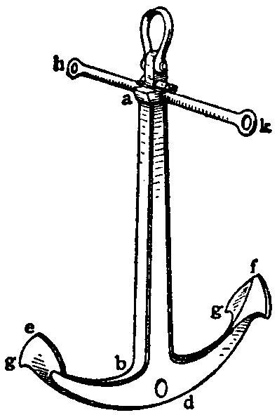 Captain Rodger's anchor marked a great departure from the form of previous anchors. The arms, de, df were formed in one piece, and were pivoted at the crown d on a bolt passing through the forked shank ab. The points or pees e, f, to the palms g' were blunt. This anchor had an excellent reputation amongst nautical men of that period, and by the committee on anchors, appointed by the [British] admiralty in 1852, it was placed second only to the anchor of Trotman.